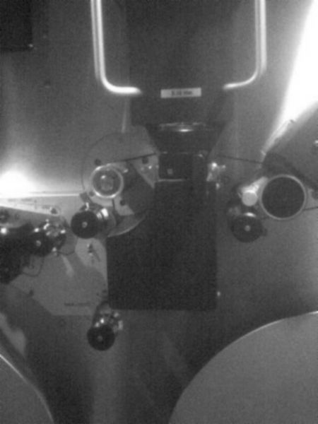 Telecine - gate detail (or optical block or optical gate assembly)